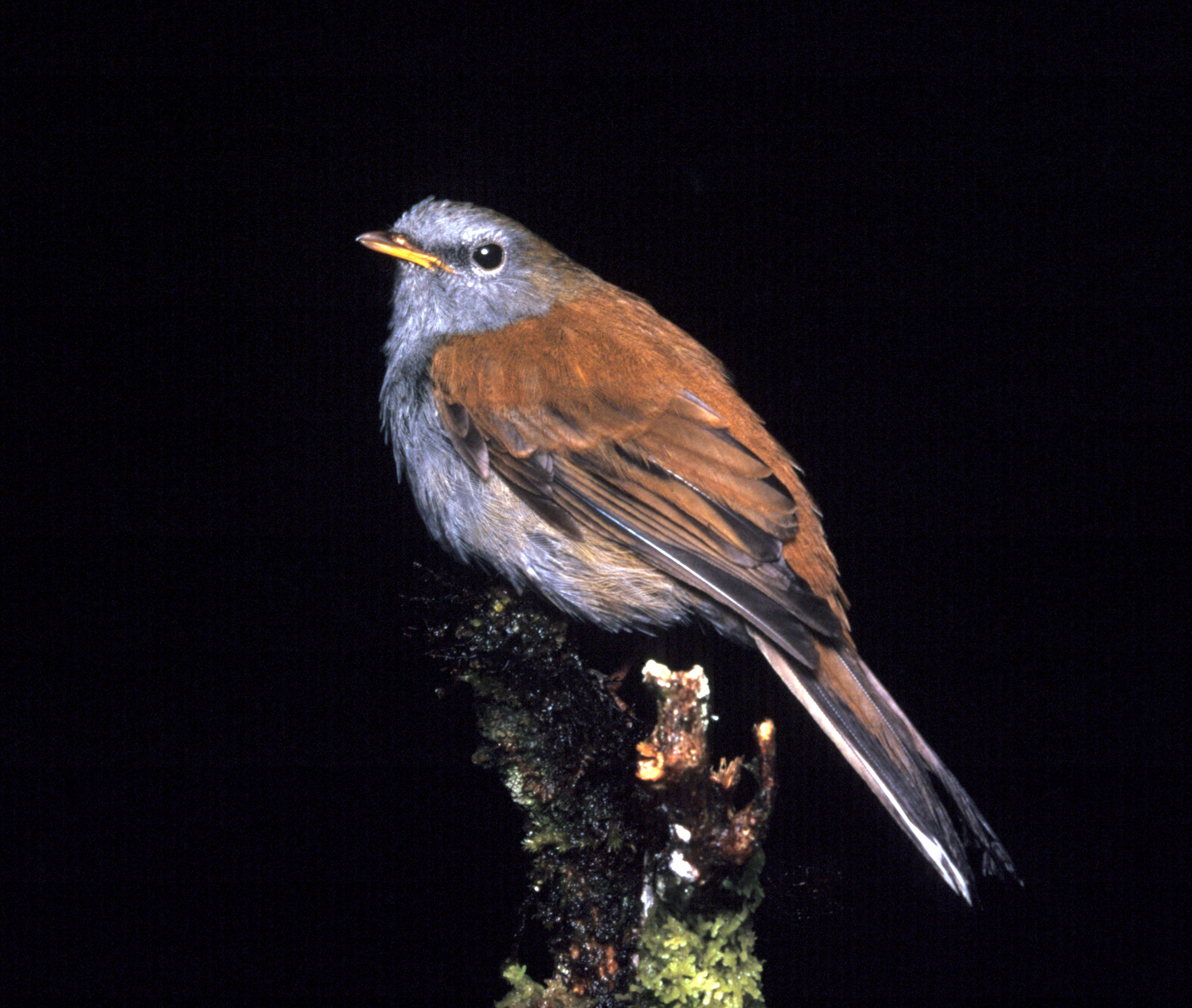 Andean Solitaire (Myadestes ralloides) from the NBII Image Gallery. Photographed at Chinopintza Cordillera del Condor, Morona Santiago, Ecuador.